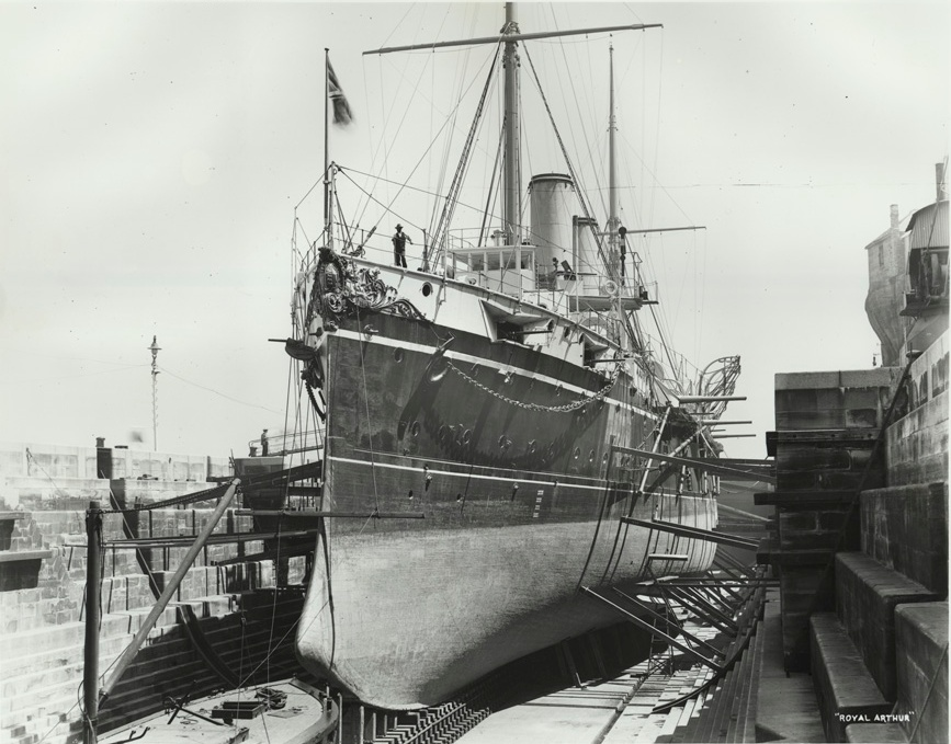 Photograph of British cruiser HMS Royal Arthur in drydock at Sutherland Dock, Cockatoo Island, Sydney.